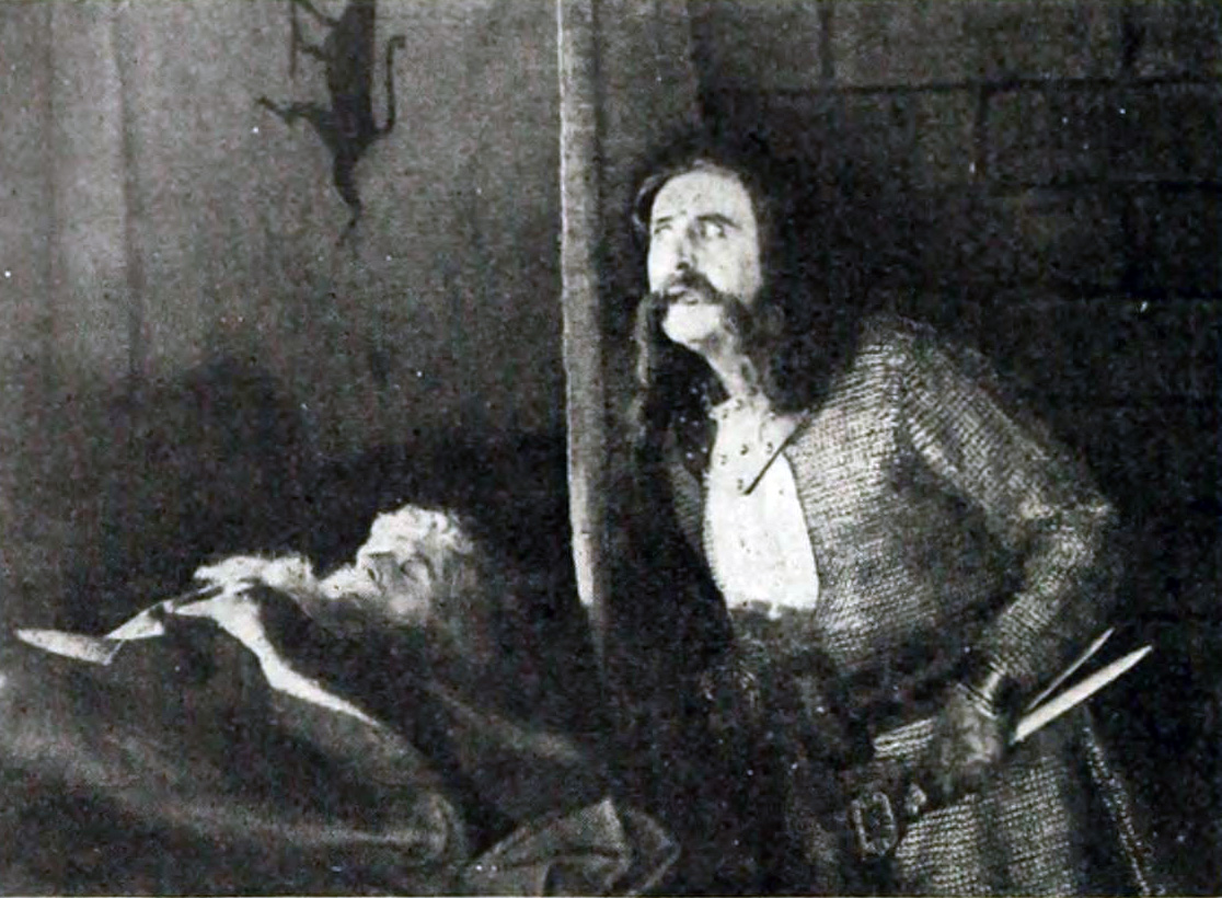 Illustration of a review in The Moving Picture World